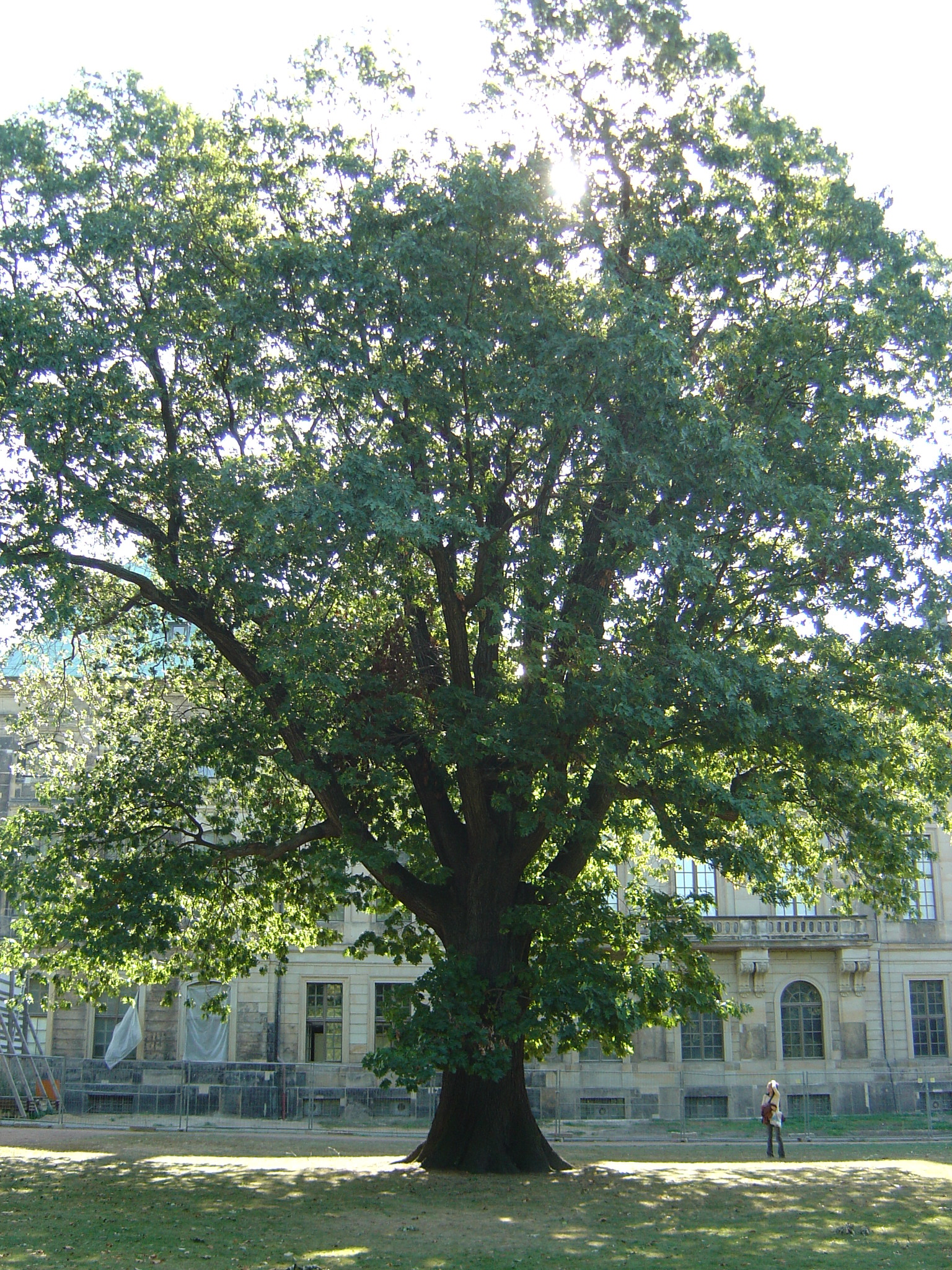 This is an old specimen of Northen Red Oak in the garden of the Japanisches Palais in Dresden, Germany. The photograph was taken in the Summer of 2006. Photo by Daniel J. LaytonDjlayton4 14:29, 4 May 2007 (UTC)